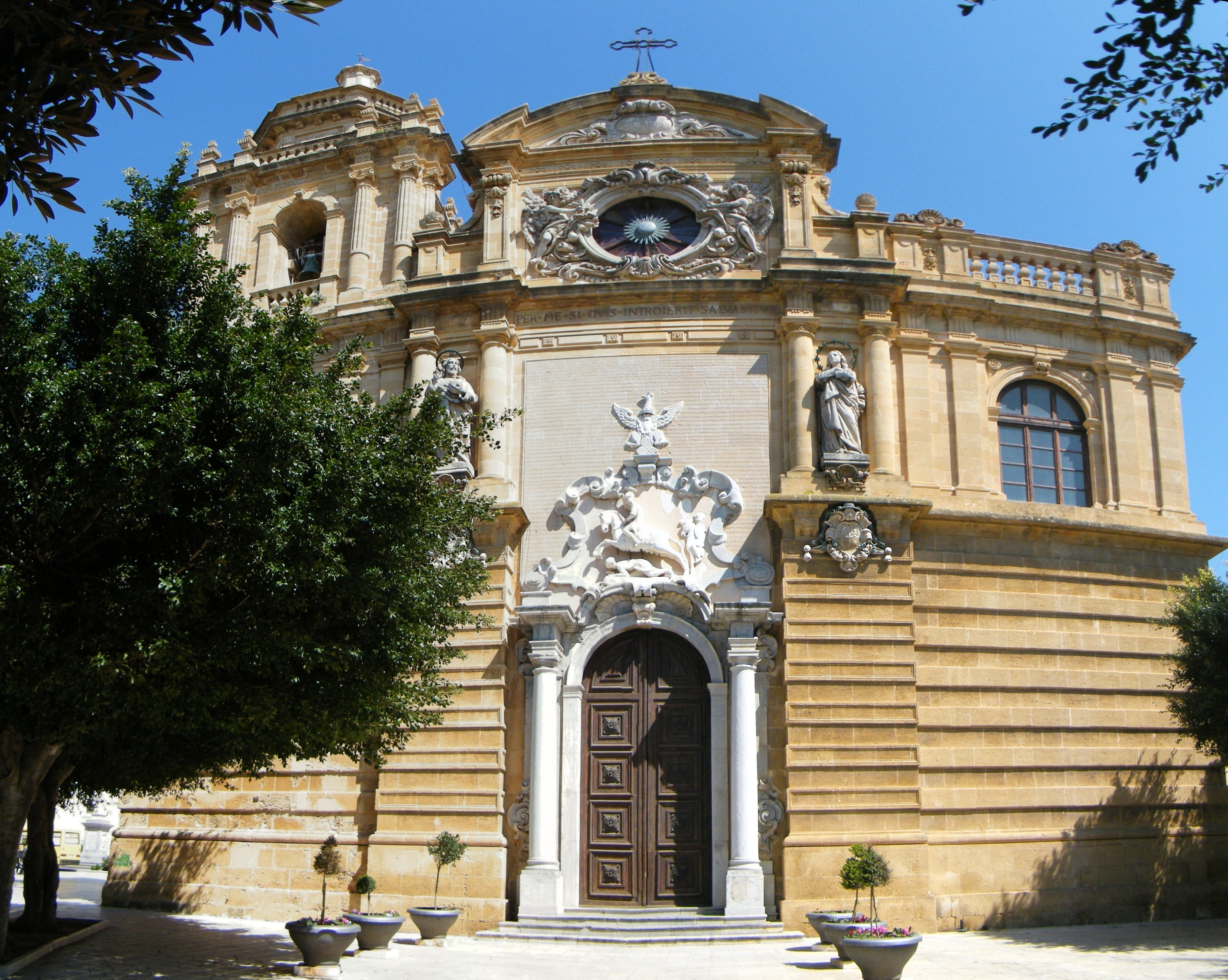 Front portal of the Cathedral of Mazara